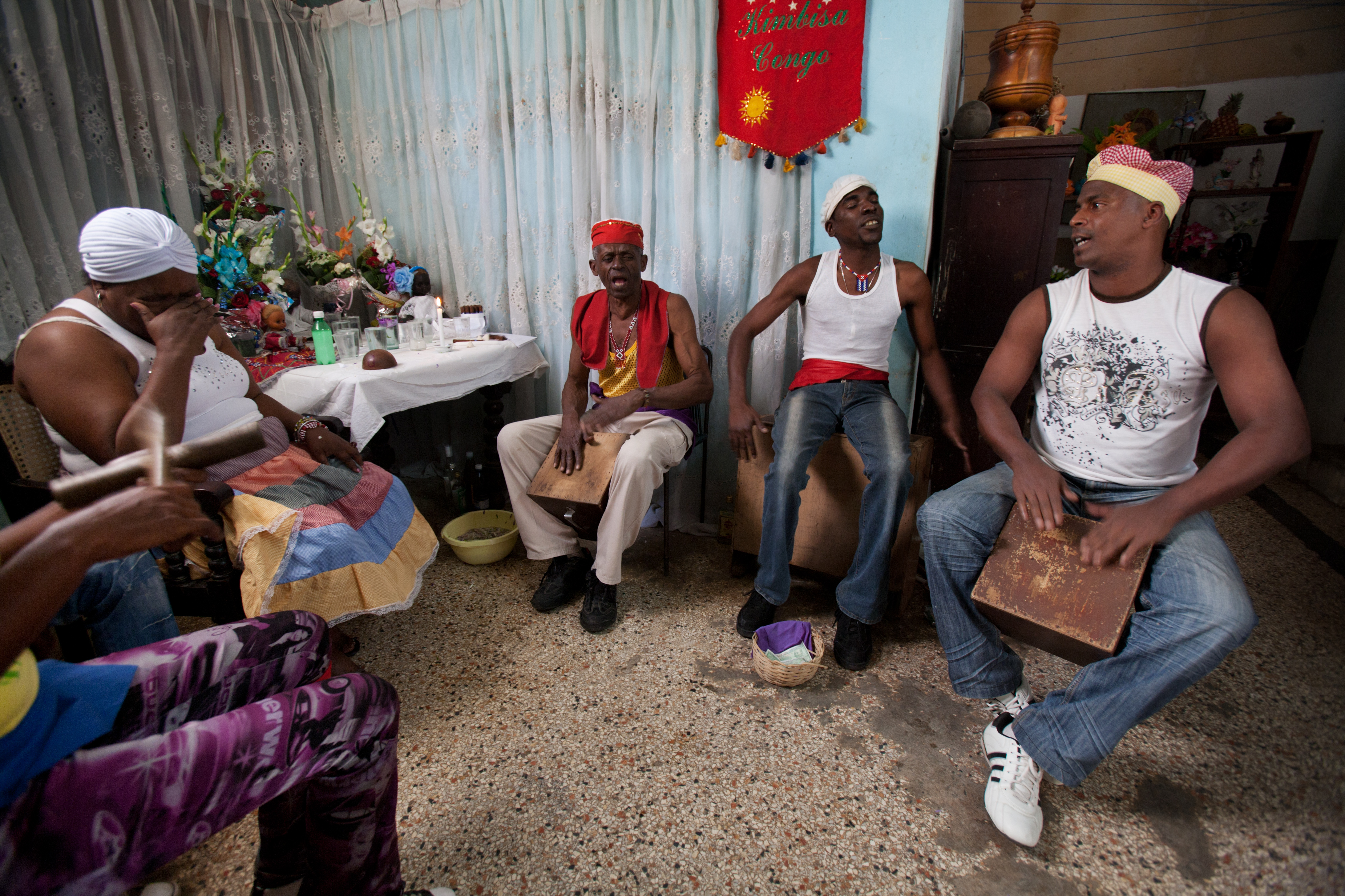 Santería is a system of beliefs that merge the Yoruba religion with Roman Catholic and Native Indian traditions. This ceremony is called "Cajon de Muertos". Havana (La Habana), Cuba